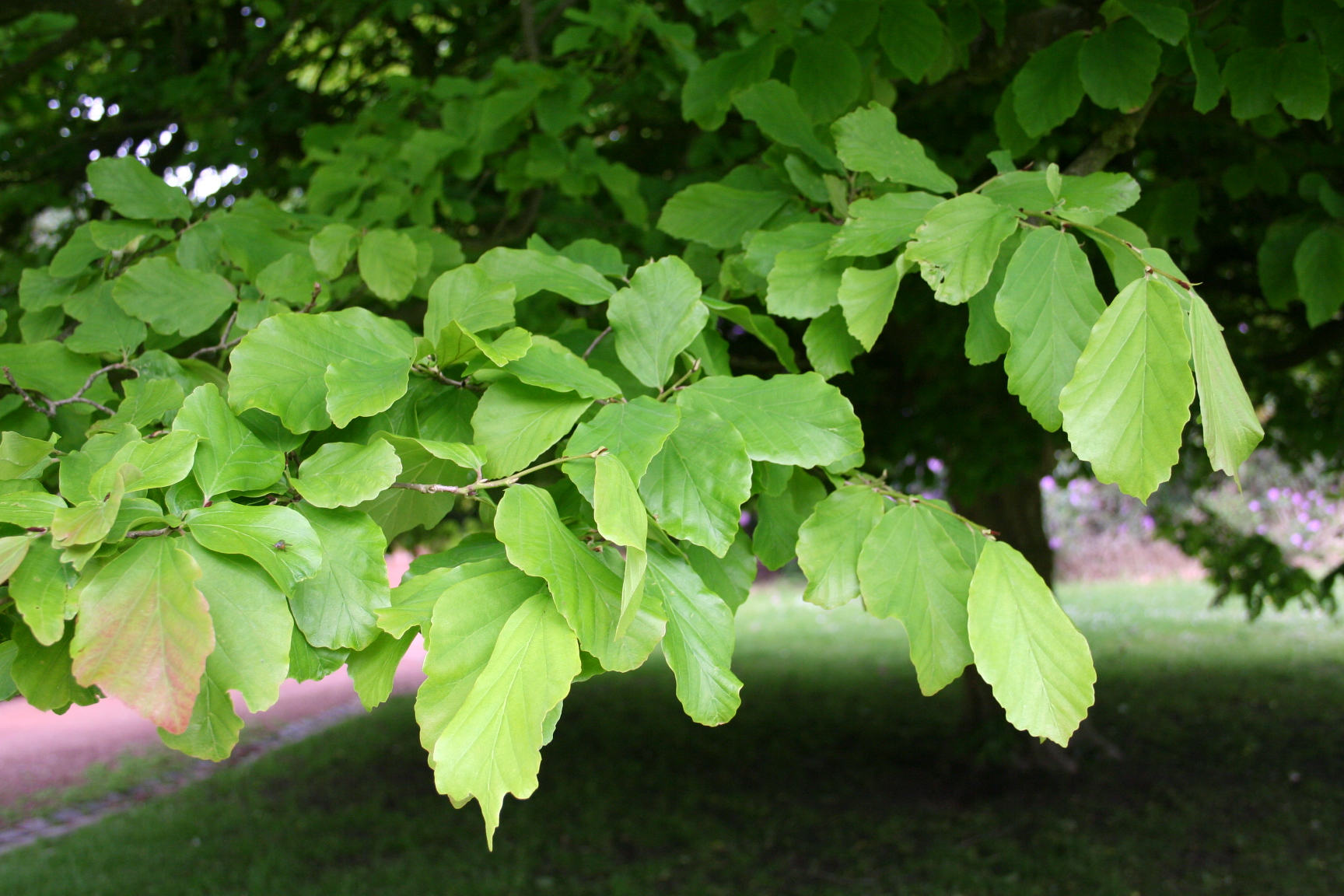 Persian Ironwood.